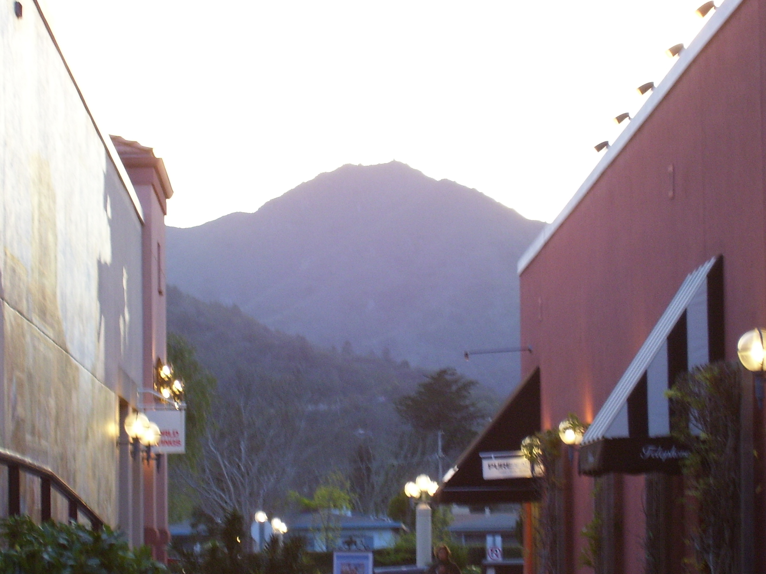 Mt. Tamalpais from the Corte Madera Town Center Shopping Mall